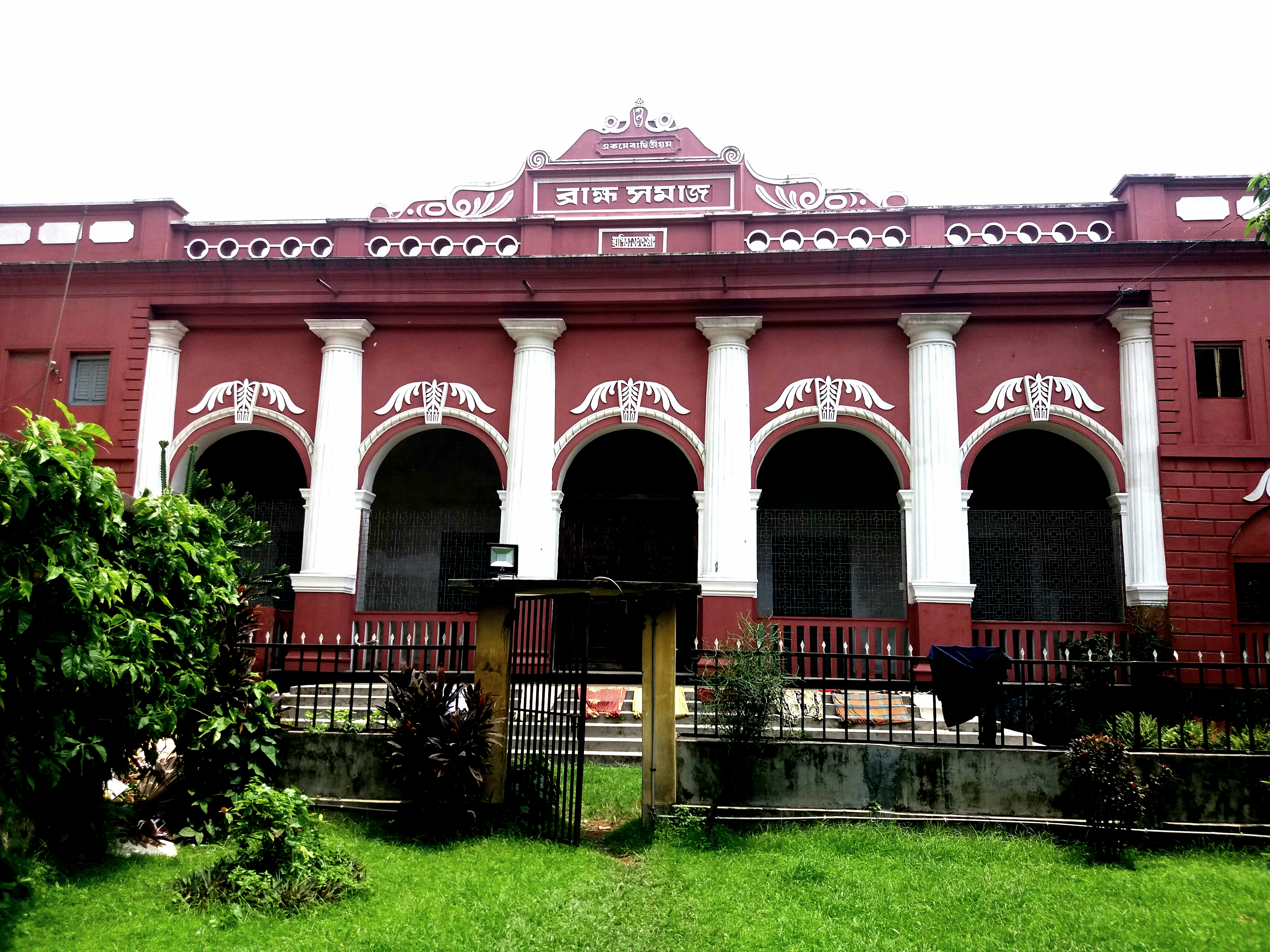 ব্রাহ্ম মন্দির, পাটুয়াটুলী, ঢাকা। Brahma society temple, Patuyatuly, Dhaka